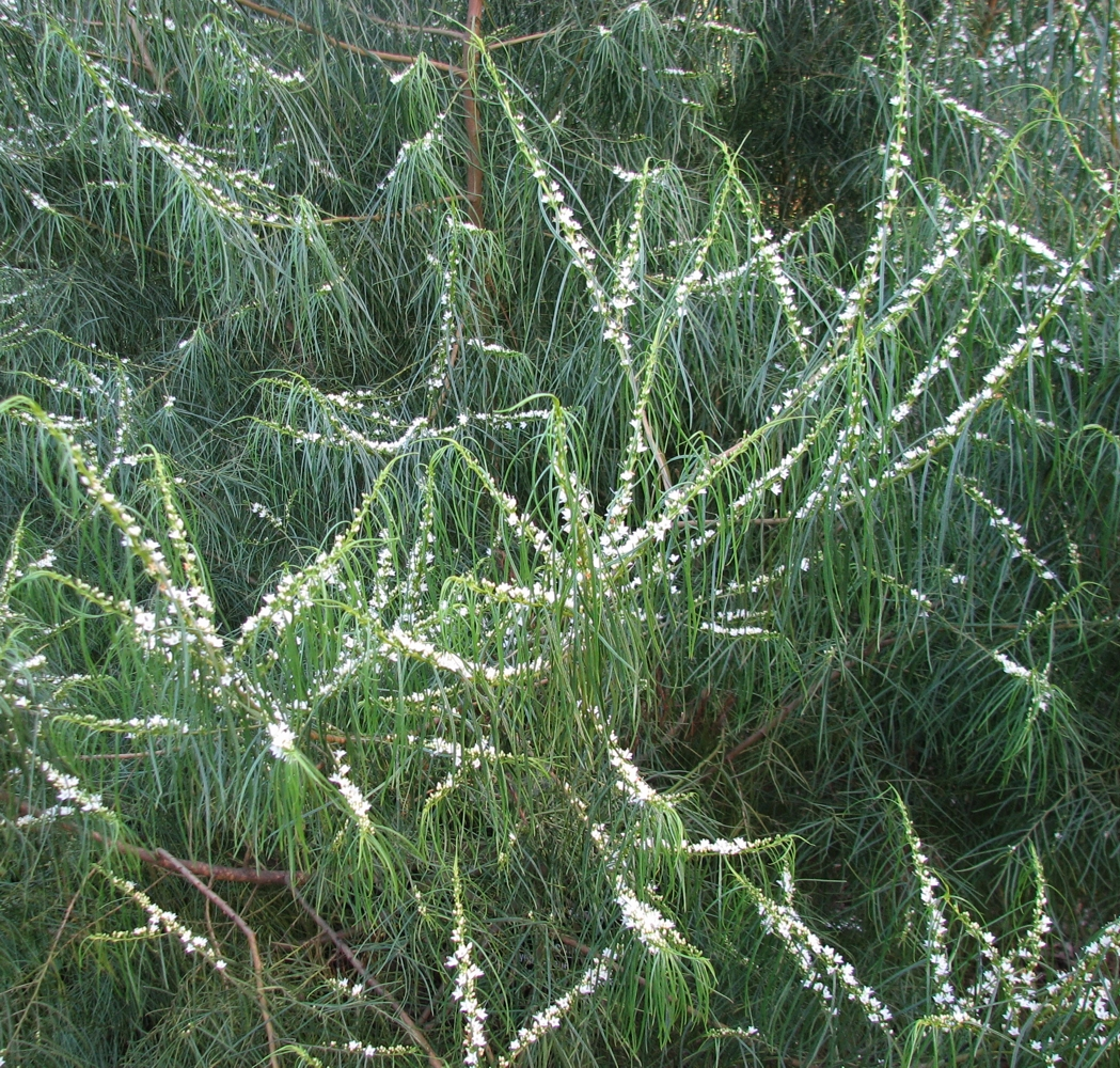 Myoporum floribundum (cultivated, labelled) Royal Botanic Gardens Melbourne, Australia